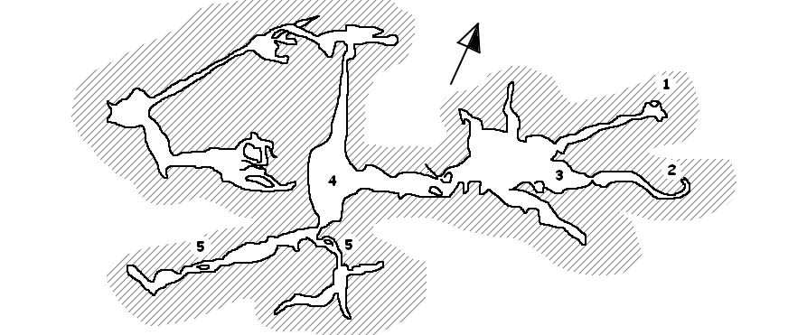 Chianta da' Rutta Monellu, arrangiata supra Domenico Caruso, La fauna della grotta Monello, Atti e Memorie dell'Ente Fauna Siciliana, II, 1994, pp. 87-121, cha s'attrova ni Isabella Turbanti-Memmi, Advances in Archaeometry, Springer, 2010, p. 482. Unu: Angressu naturali d'origgini; Rui: Angressu artificiali d'auora; Tri: Sala do'ngessu; Quattru: Sala principali; Cincu: Lachi. 'A freccia punta allu settentriuni.